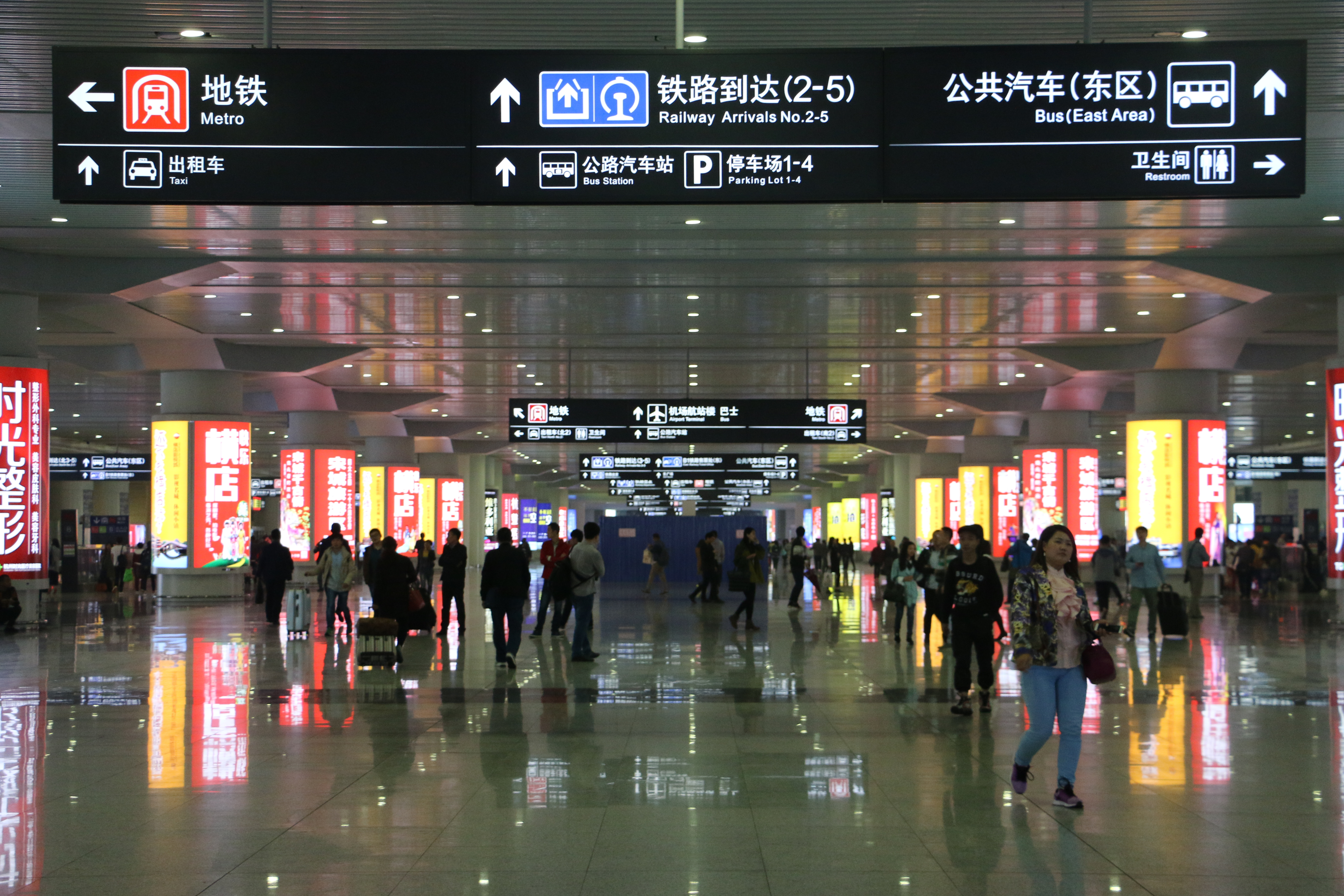 201604 Arrival hall of Hangzhoudong Station (South)